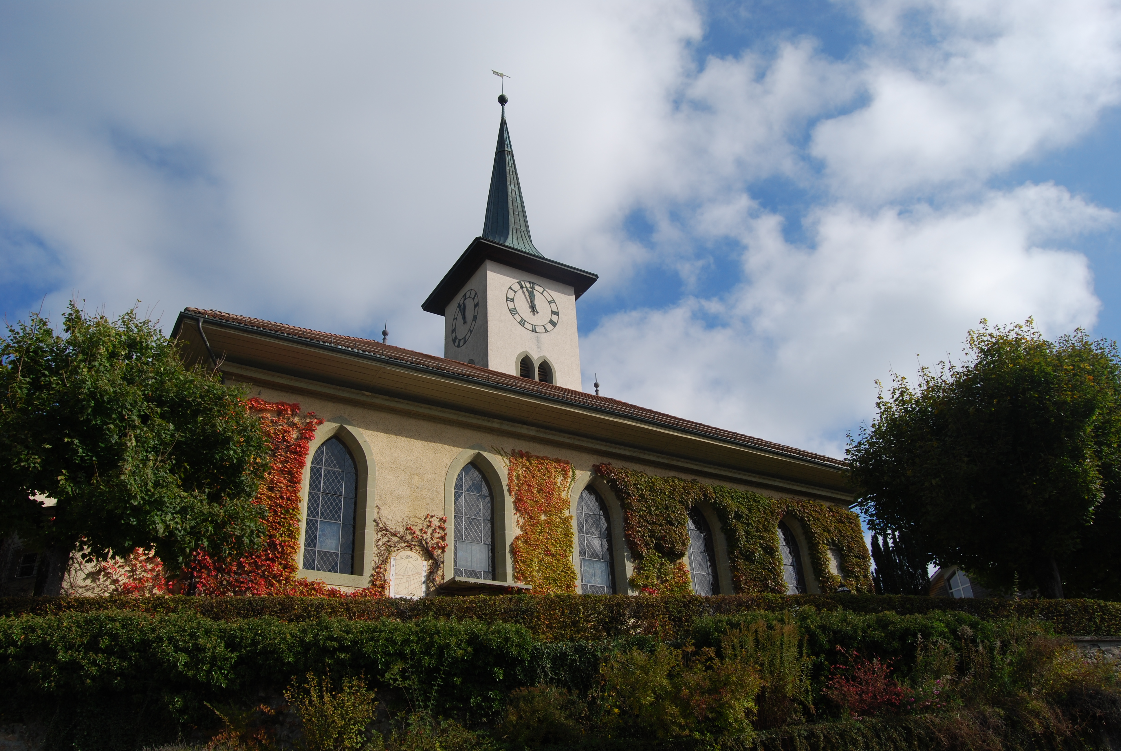 Church of Grosshöchstetten, canton of Bern, SwitzerlandEsperanto: Preĝejo de Grosshöchstetten, Kantono Berno, Svislando